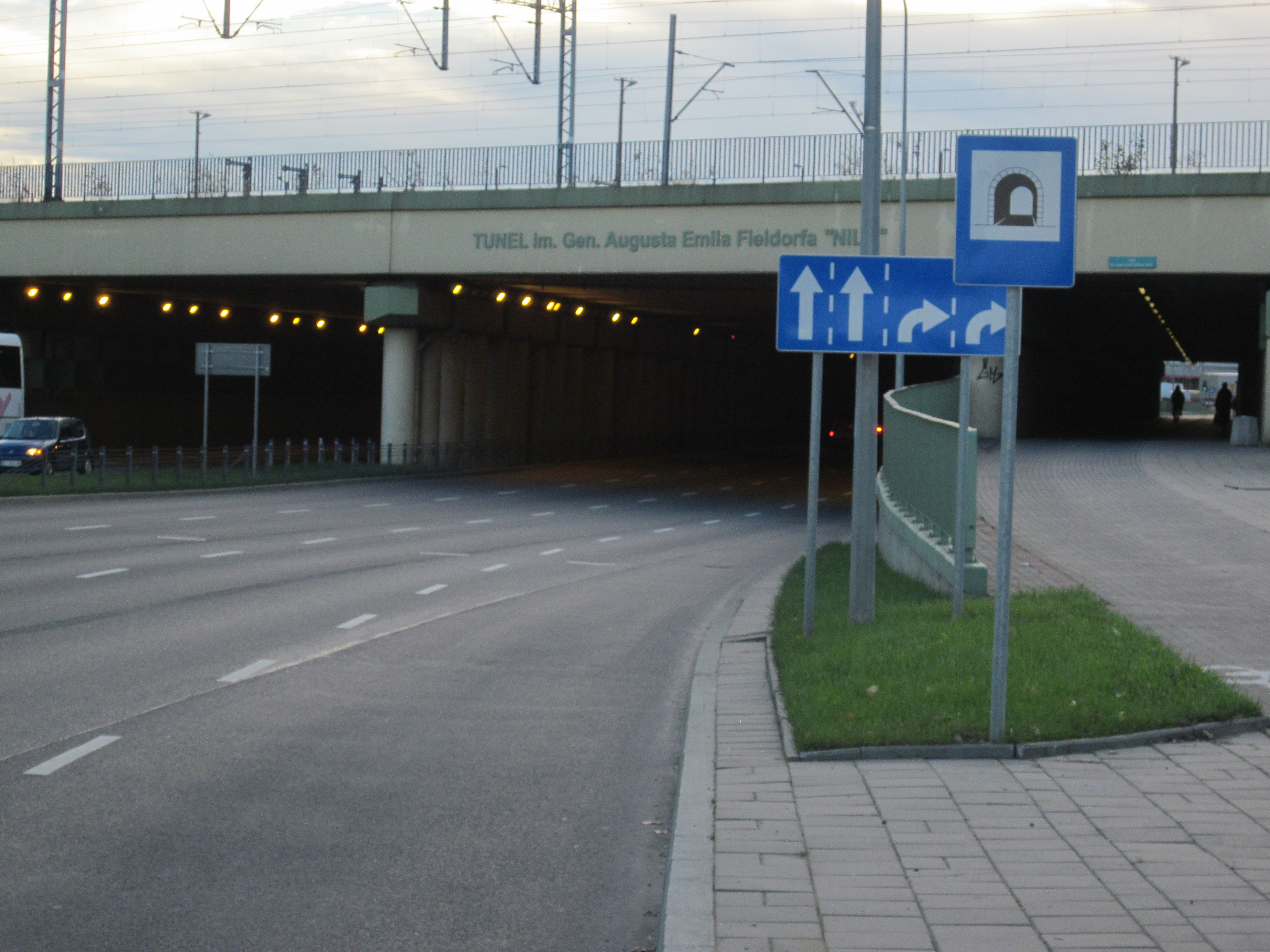 Tunnel in Białystok named Gen. August Emil Fieldorf.